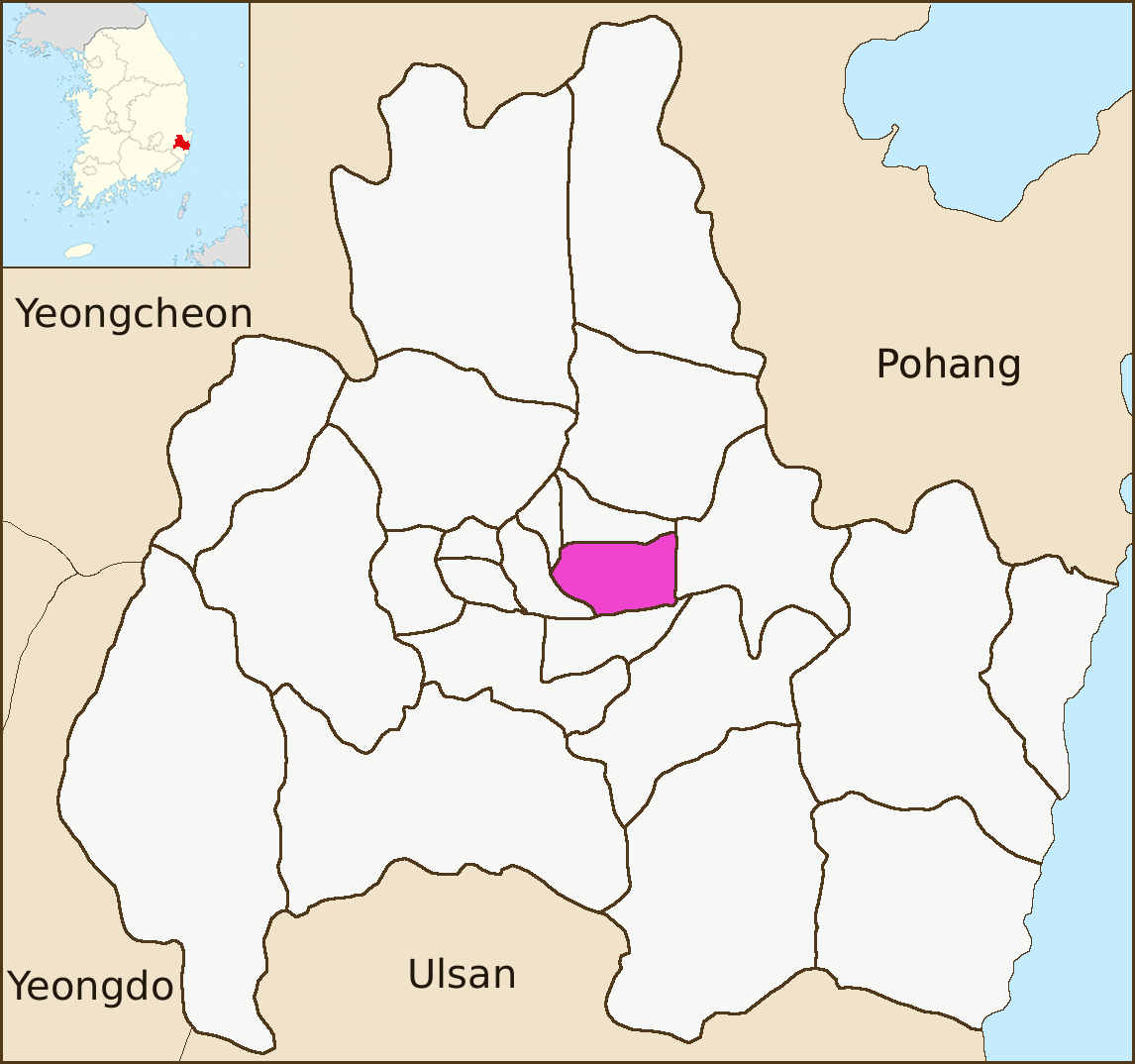 Map of Dongcheon-dong, an administrative division of Gyeongju, South Korea. Created by User:Visviva, redrawn by Kokiri